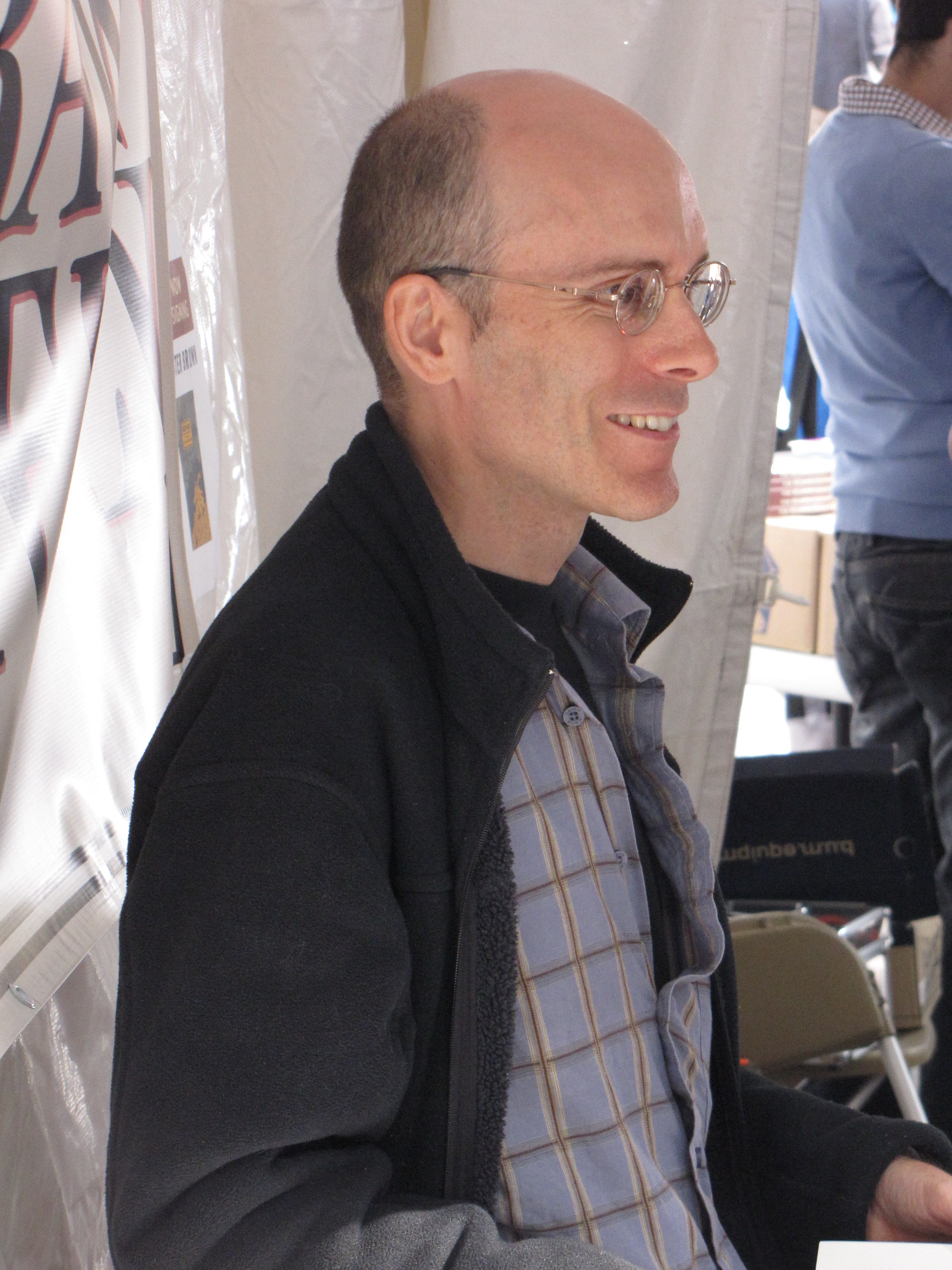 Comic creator Chester Brown, at the Toronto Word on the Street festival